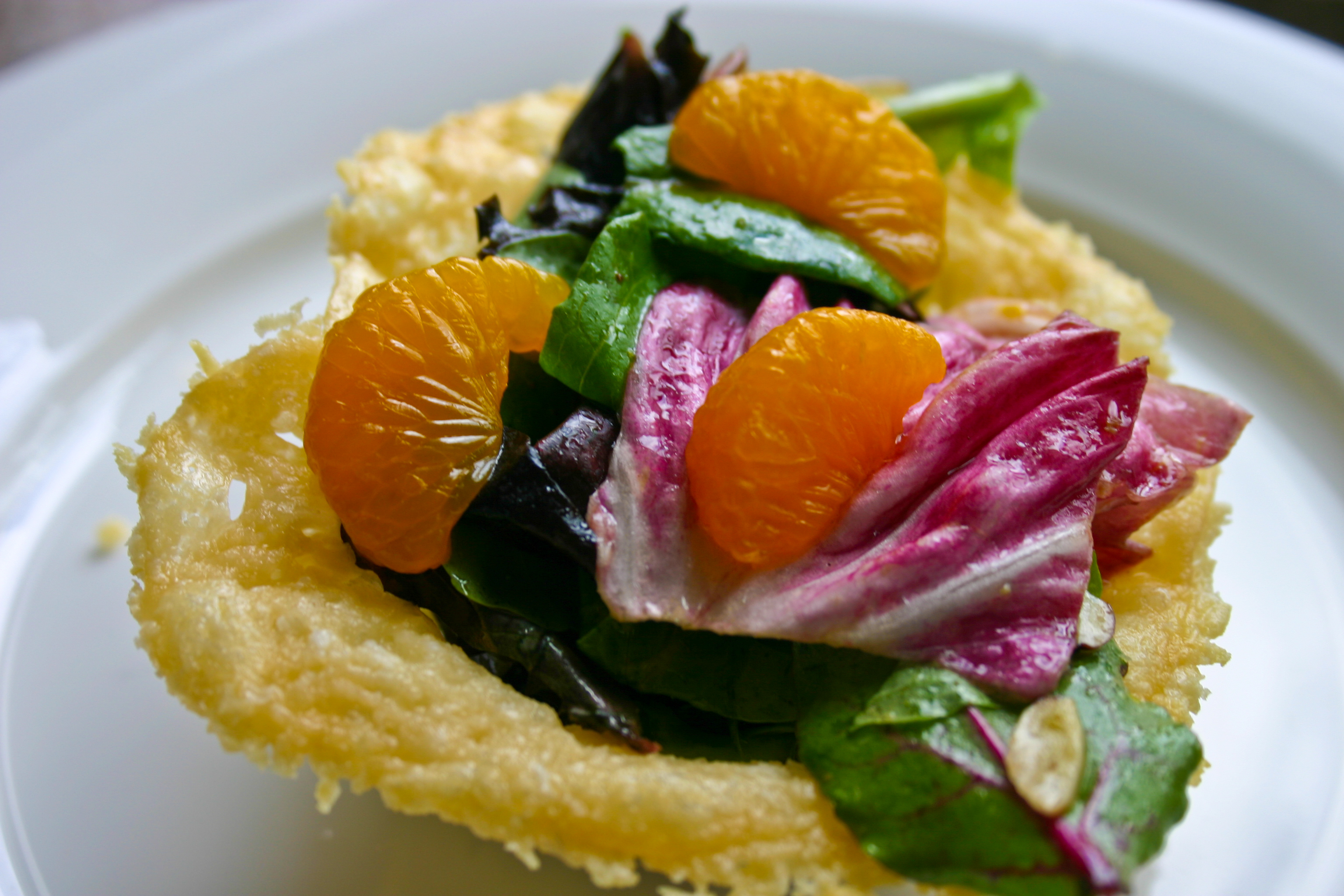 Parmesan frico cup with greens and clementine